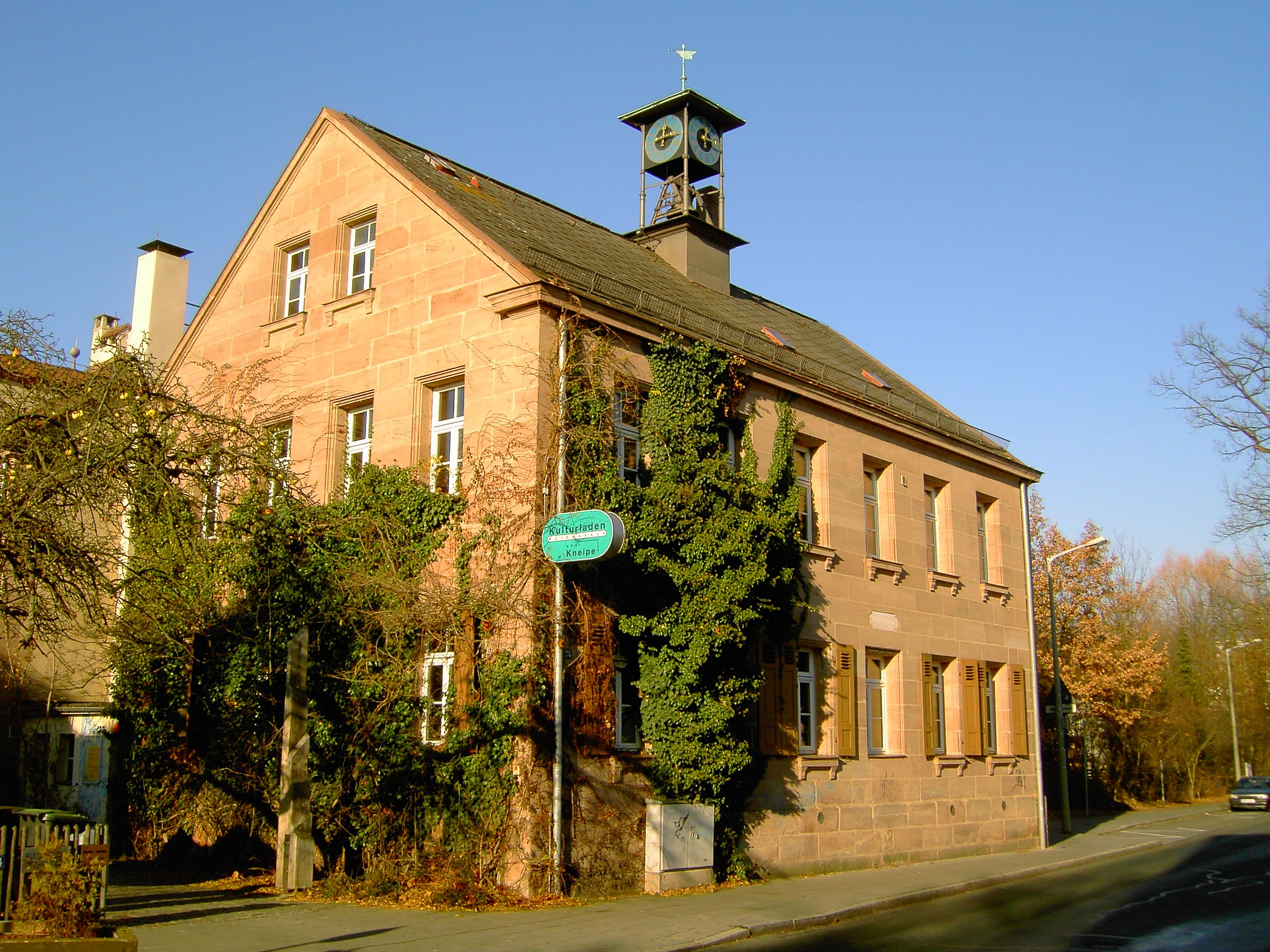 Picture of the old schoolhouse of Röthenbach bei Schweinau, a part of Nuremberg.